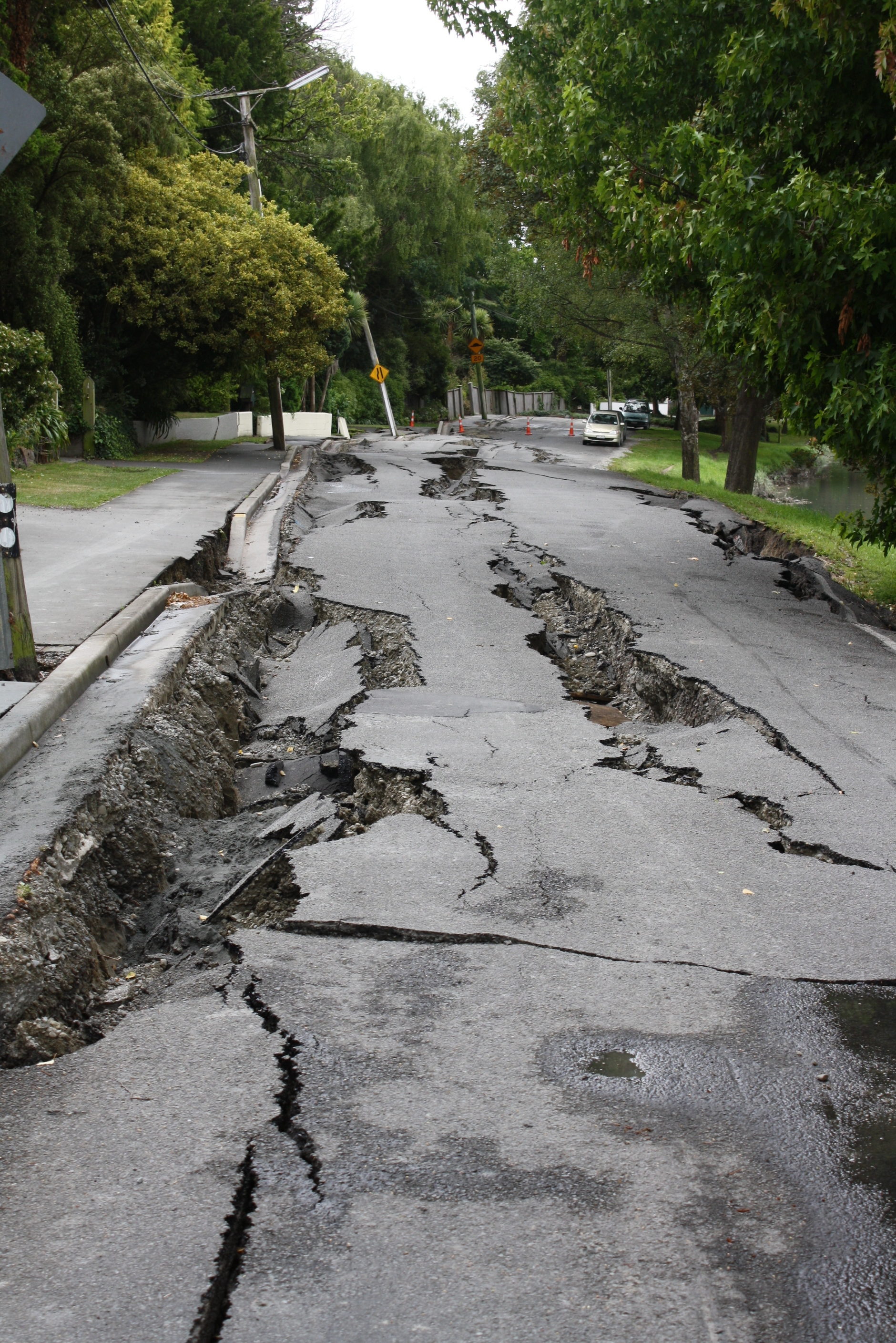 River Road in Christchurch with earthquake damage from the 22 February 2011 event.